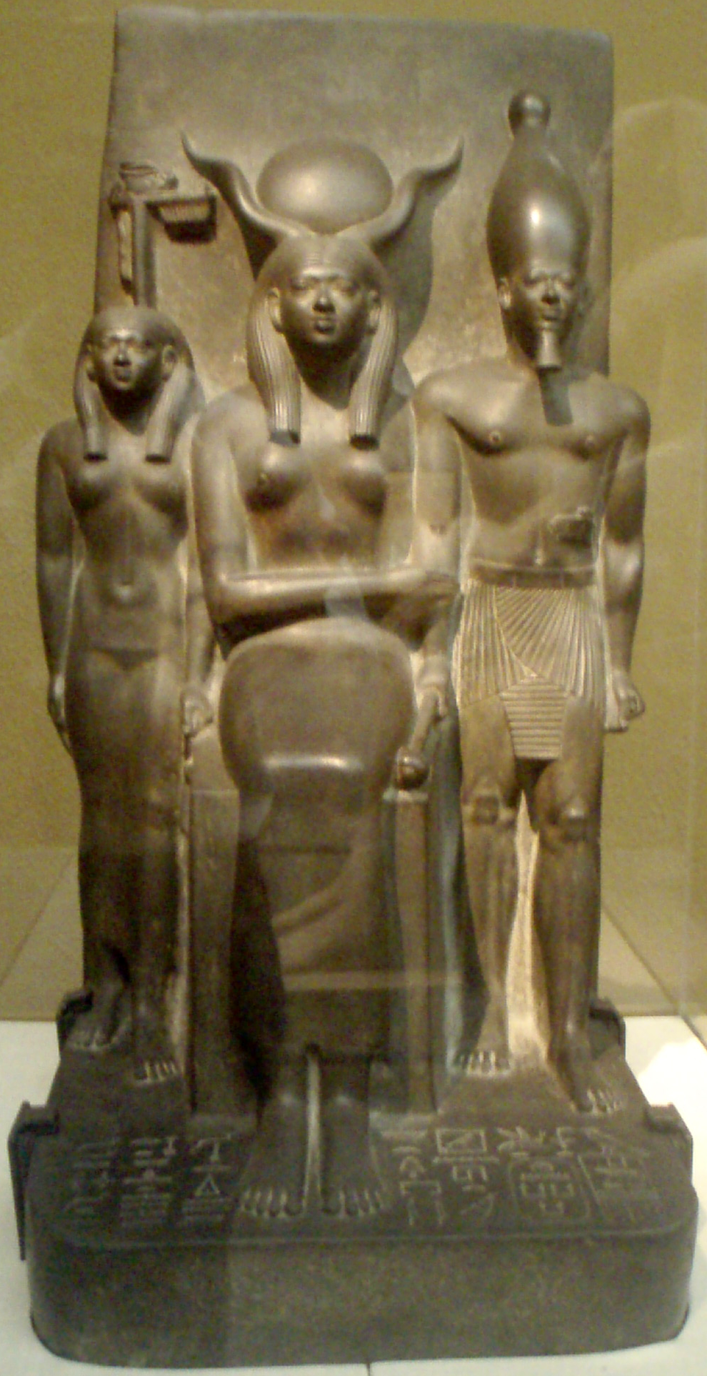 A triad statue depicting the Hare Nome goddess, the goddes Hathor, and the pharaoh Mekaura. Unlike the other statues, this one is inscribed on its base in dedication to the pharaoh. Originally from the Valley Temple of Mycerinus at Giza, made of Greywacke. Created during the 4th dynasty, circa 2548-2530 B.C. Now at the Museum of Fine Arts, Boston. Museum Expedition 09.200.